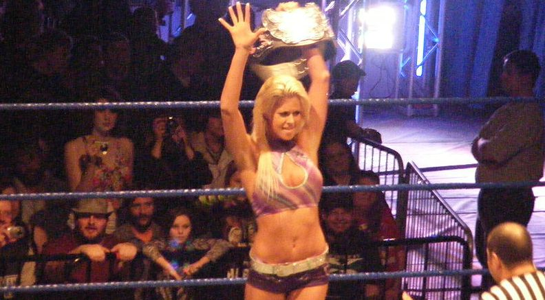 WWE Divas Champion Maryse Ouellet after defending the championship successfully at a WWE show on February 28, 2009